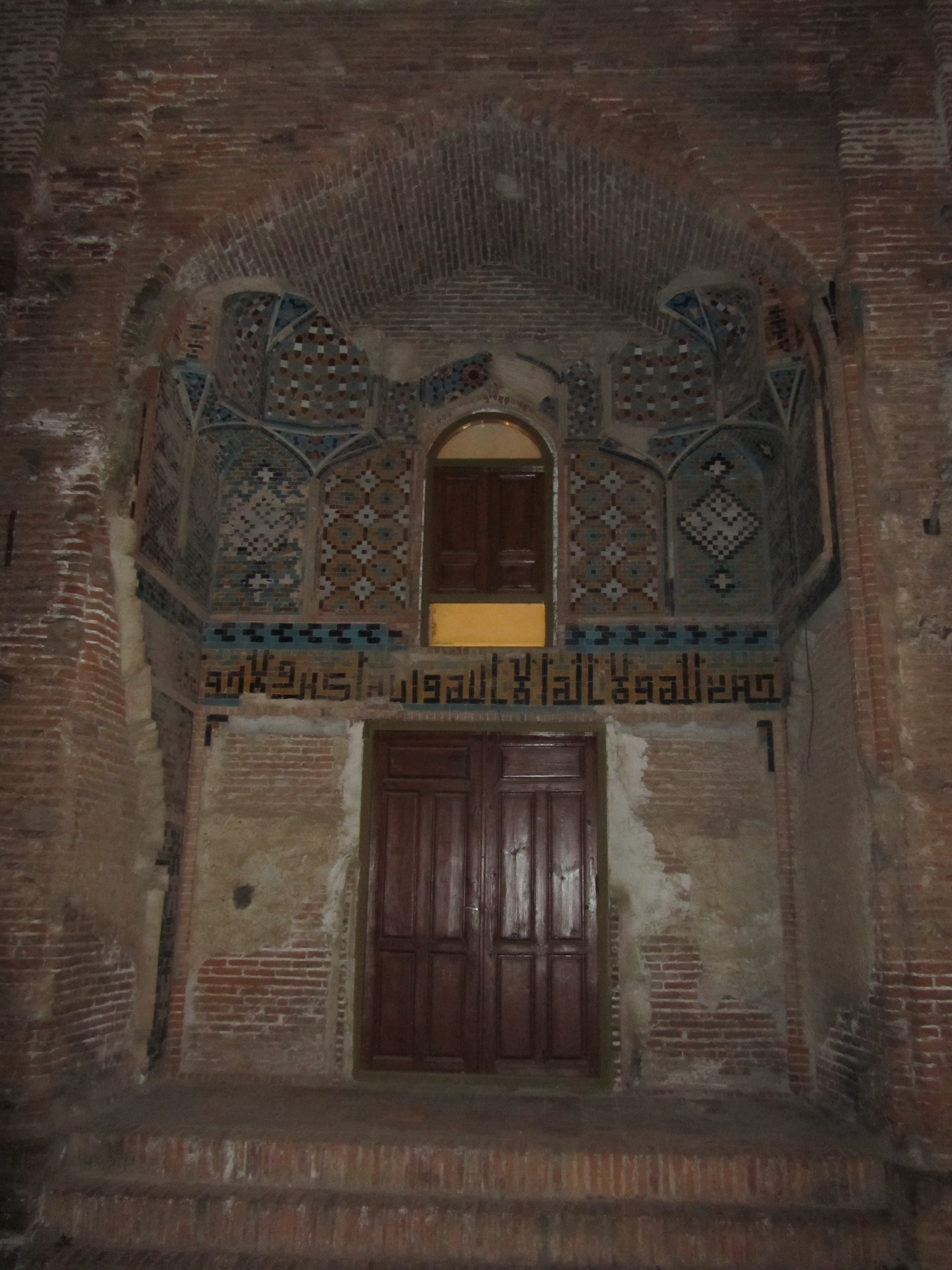 Mir Bozorg Monument's Door at night in Amol